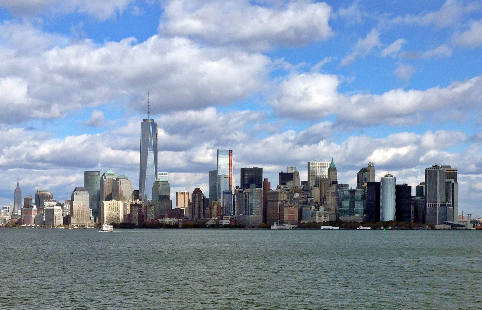 South Manhattan skyline in october 2013.